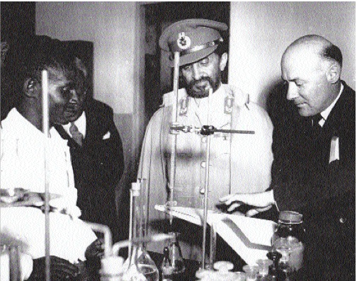 Father General Pedro Arrupe SJ with Jesuits in Ethiopia in 1976